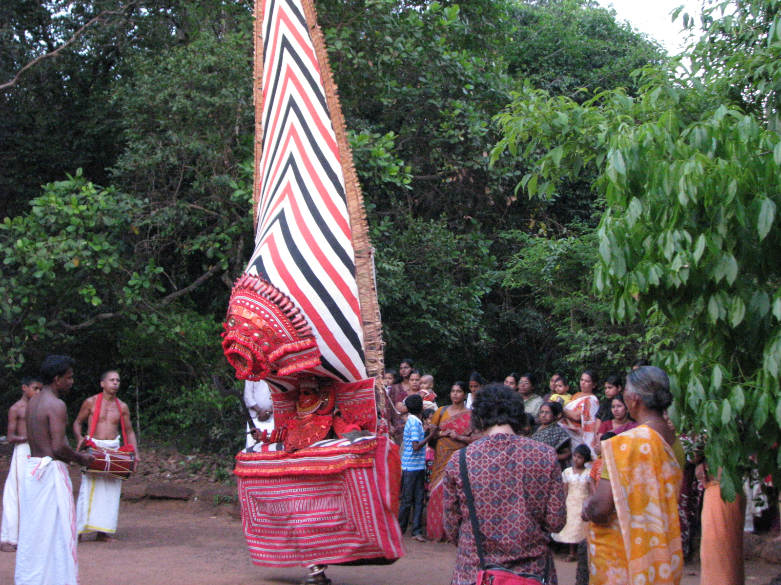 നീലിയാർ ഭഗവതിത്തെയ്യം